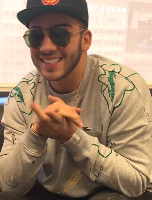 Colombia singer Manuel Turizo